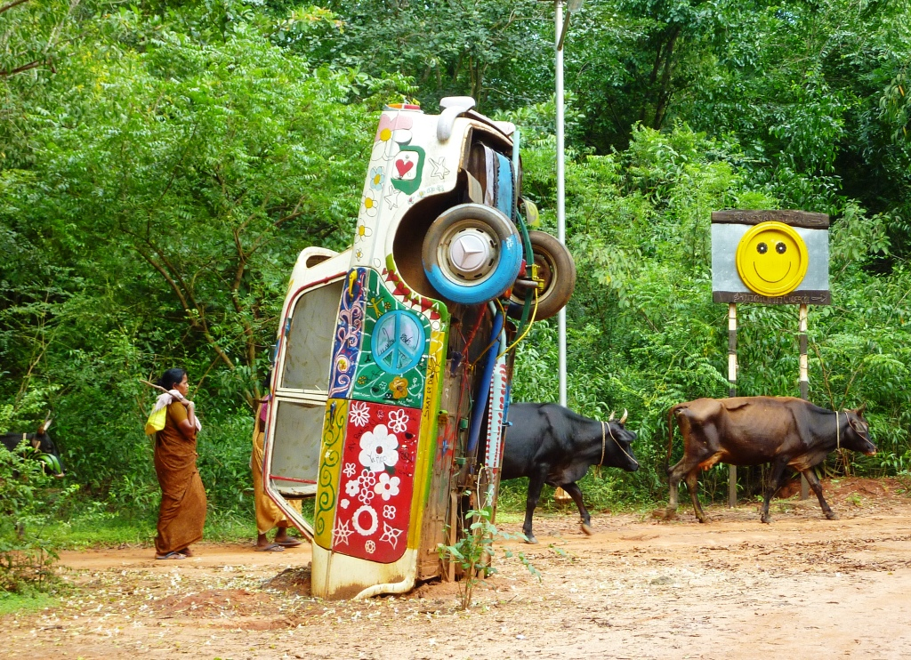 I took this photo on a driving trip across Tamil Nadu, India in 2010